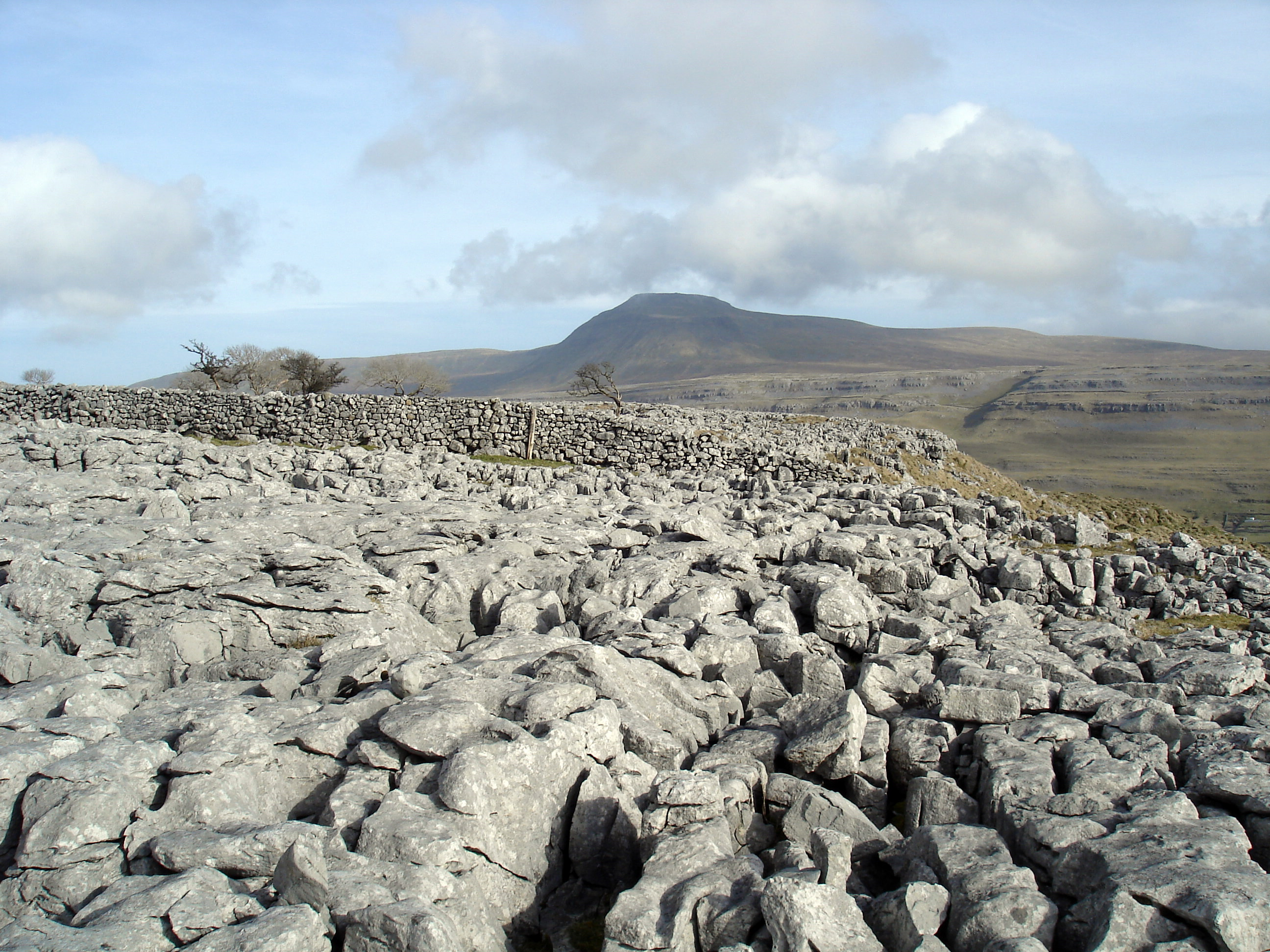 Photograph of limestone pavement on Whernside. Ingleborough is prominent in the background